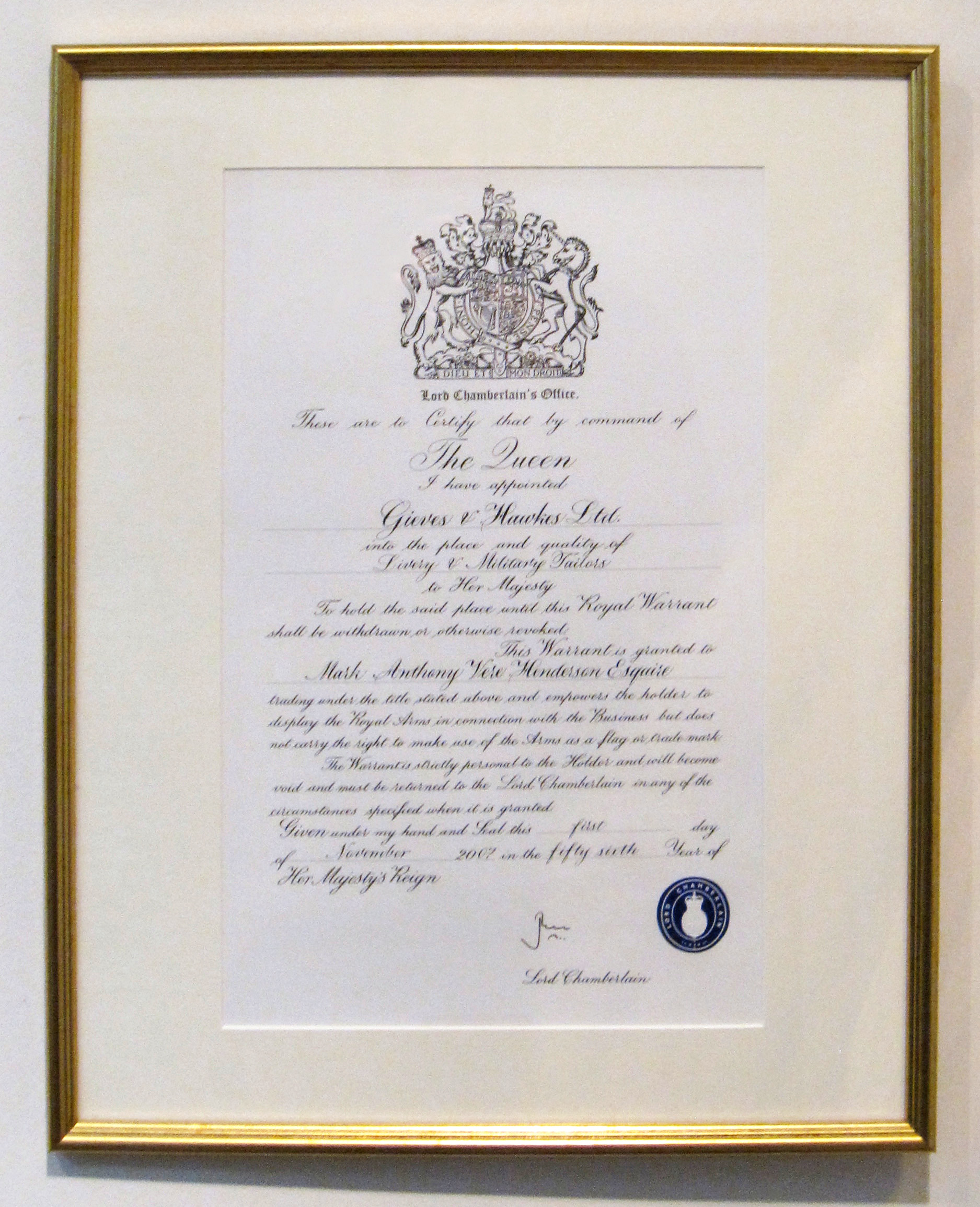 Royal Warrant of Appointments to Gieves & Hawkes in their store in London.